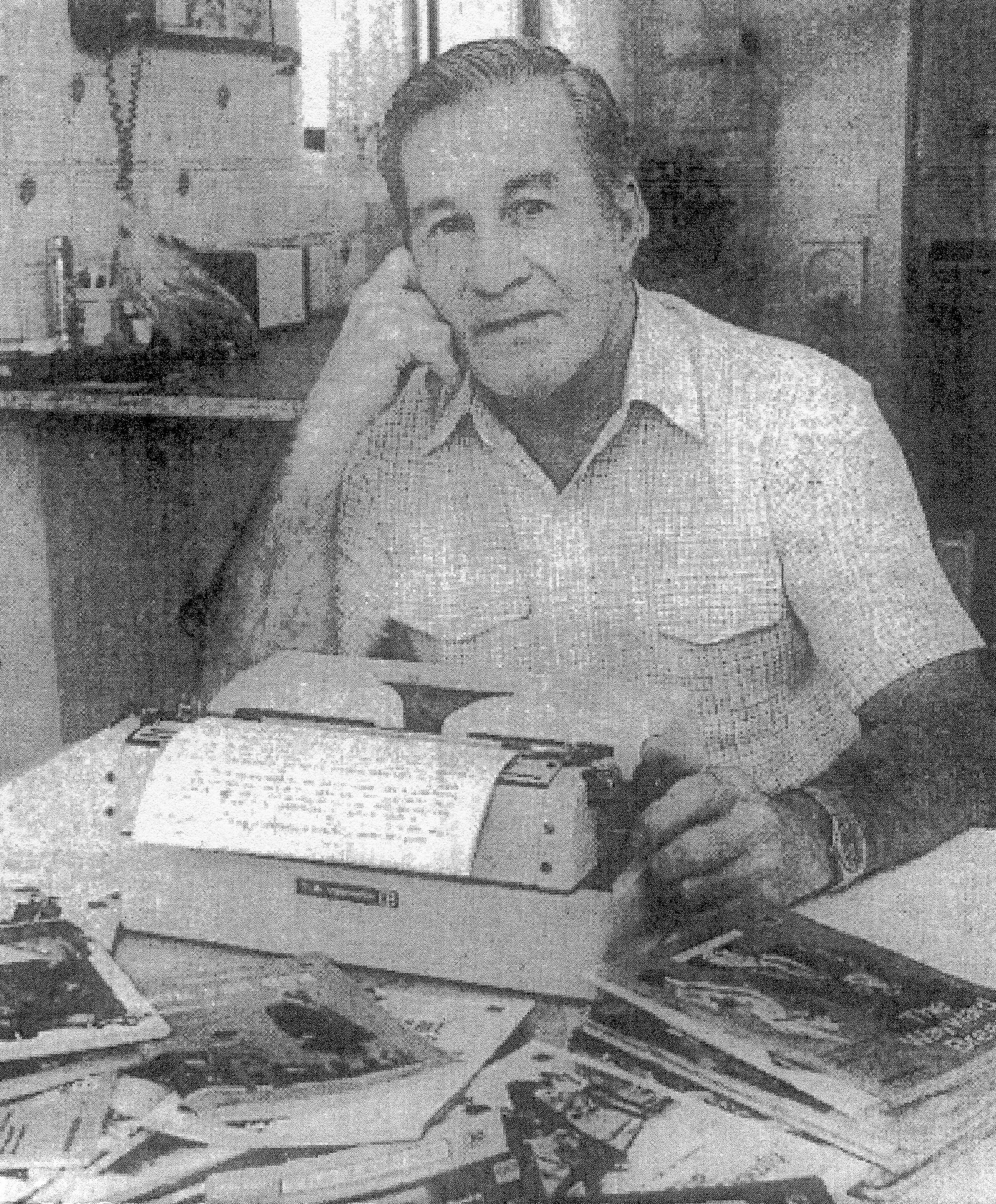 Desmond Robert Dunn at work.